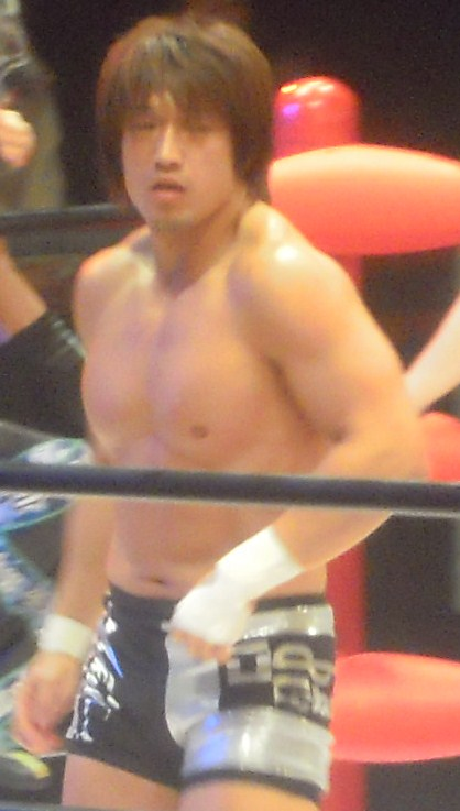 Japanese professional wrestler,Minoru Tanaka. GAORA Janualy 24 201 JCB Hall.